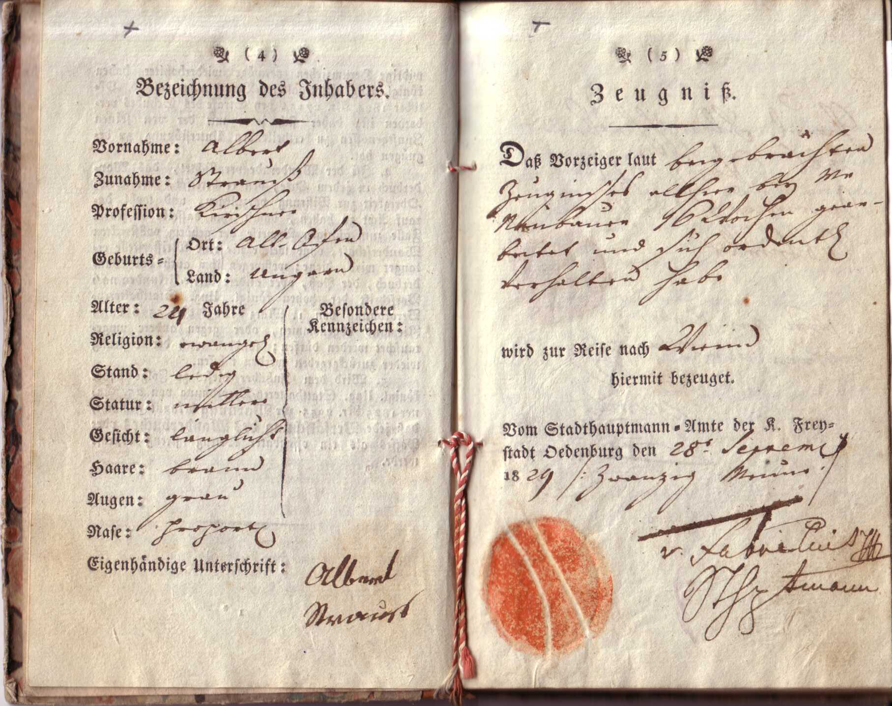 Travelling book of a German-Hungarian furrier. Page 4-5 Bezeichnung des Inhabers. Zeugniß. Nro 135 Wanderbuch nach der Hohen Königl. Ungarischen Statthalterey Verordnung vom 16. July 1816 Nro. 21080 die Stelle der gewöhnlichen Kundschaften vertrettend. Für Albert Strauß Kürschner Geselle Von dem Magistrate der Königl. Freystadt Oedenburg im Königreiche Ungarn. (32 paginierte Blätter enthaltend.)